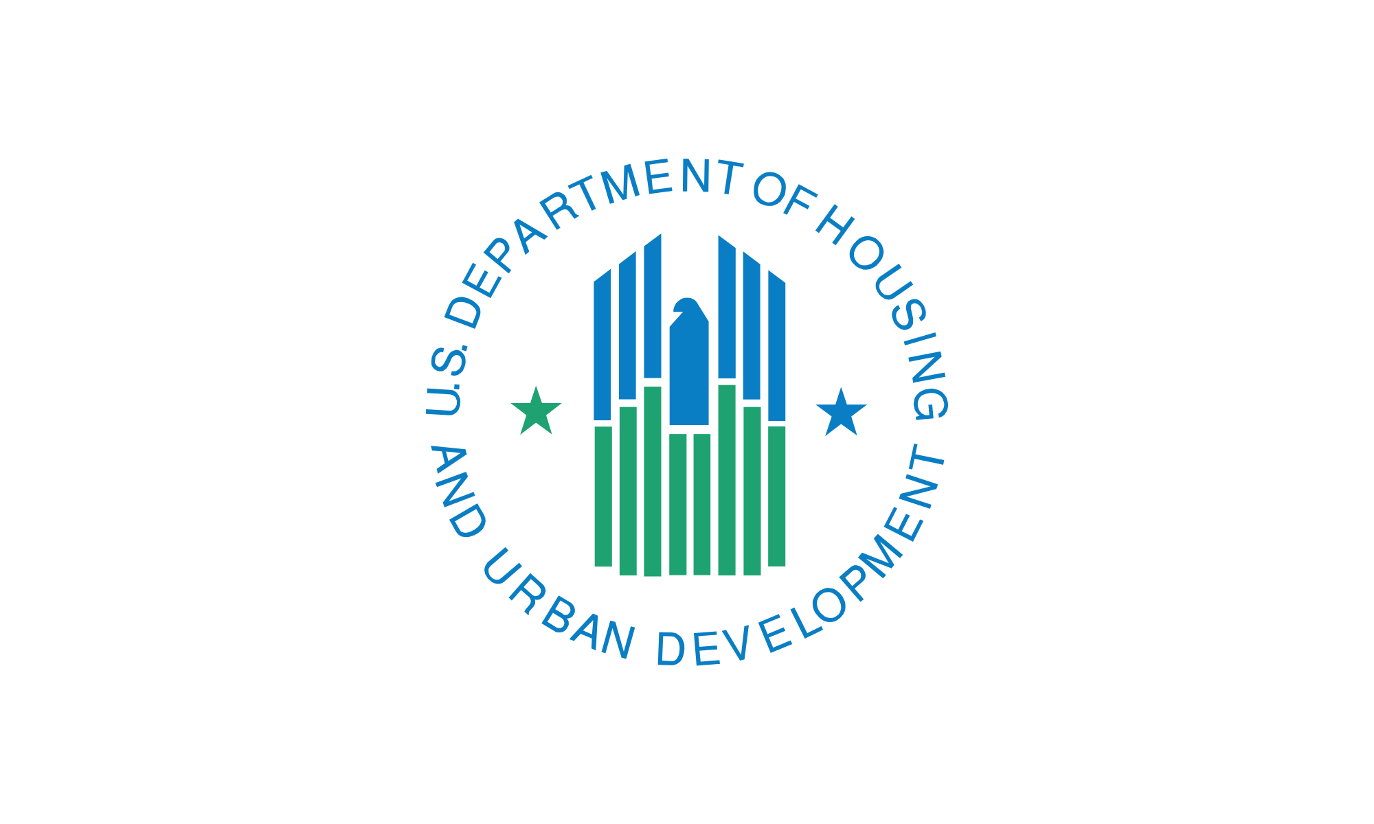 The flag of the United States Secretary of Housing and Urban Development.